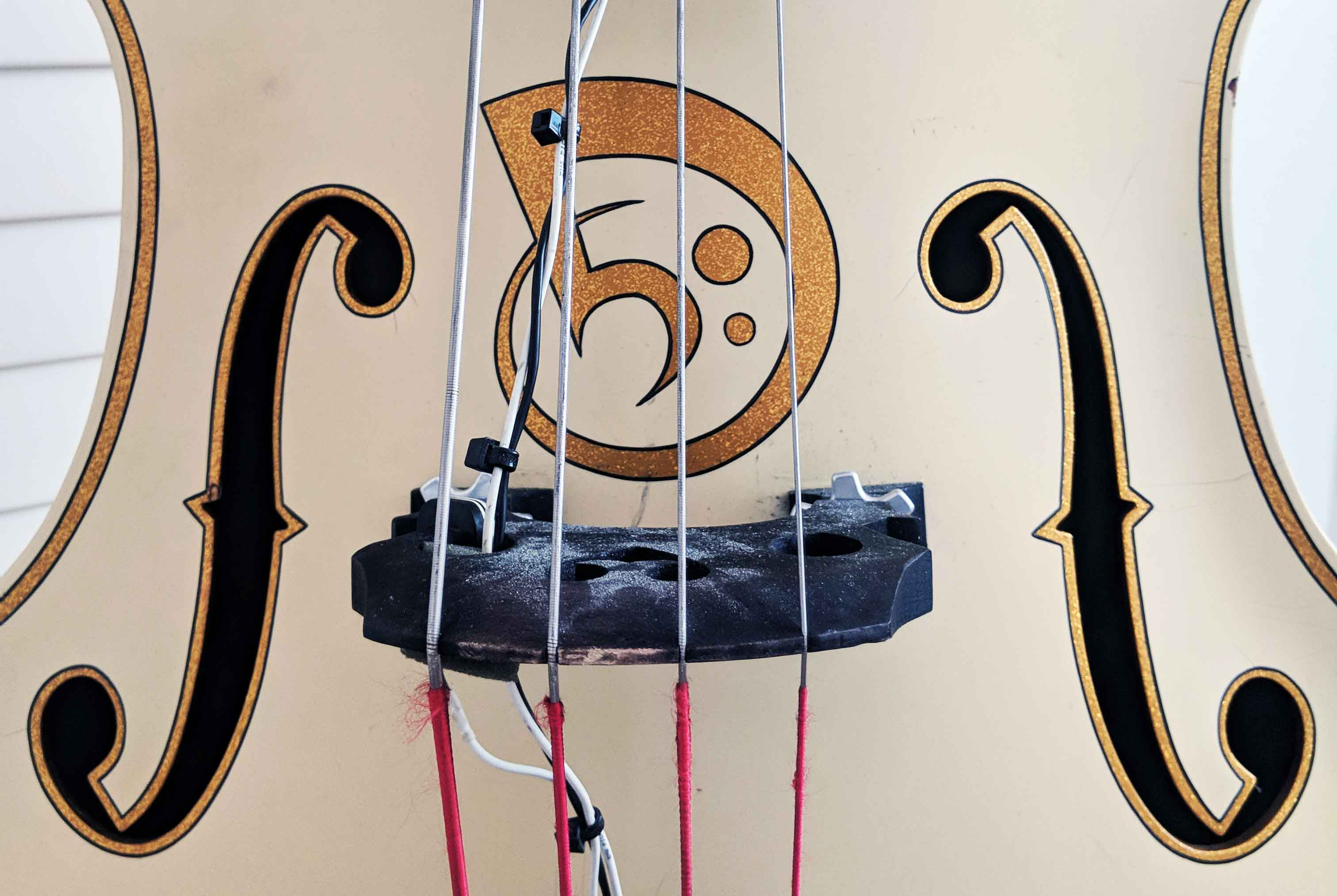 Το λογότυπο του Stijepovic είναι ένας στυλιζαρισμένος συνδυασμός του κυριλλικού γράμματος Ђ και ενός κλειδιού μπάσου.